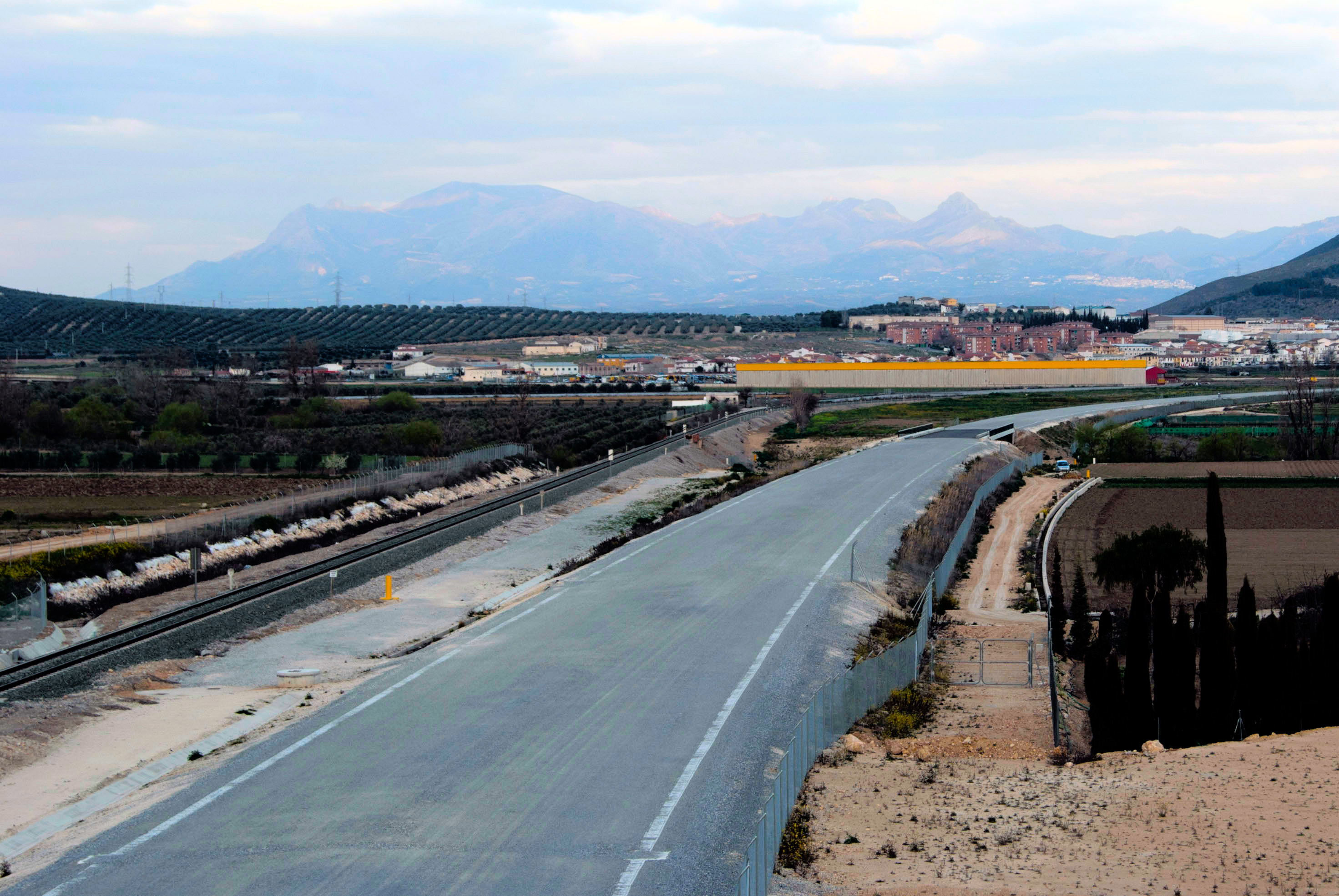 Construction works in the Andalusia transverse high speed line. Near Grenade.